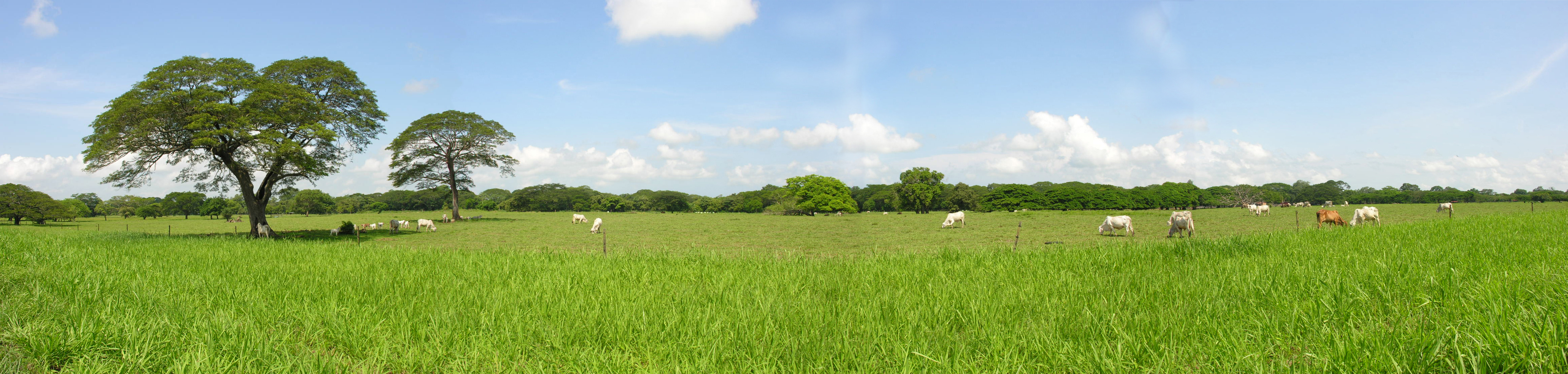 view of Guanacaste Landscape.